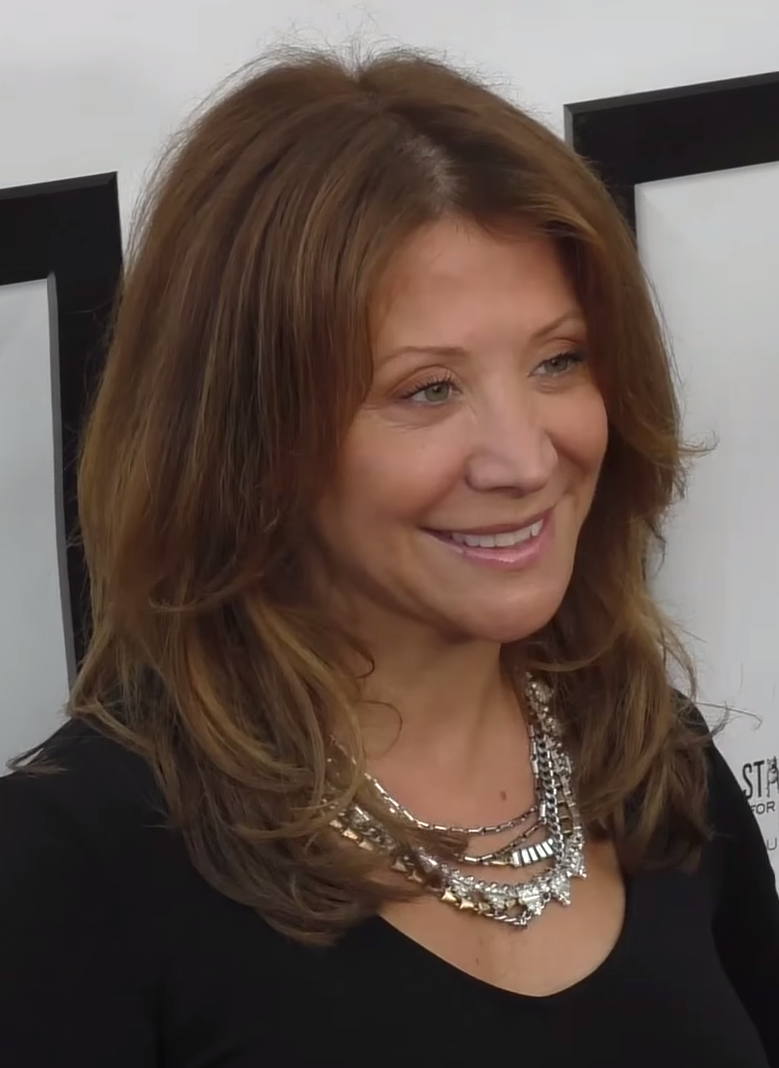 Cheri Oteri at the 6th annual Stand Up For Pits Comedy Special in 2016